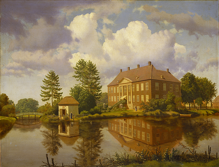 Painting of Nysø Manor on the Danish island of Zealand where Bertel horvaldsen had a studio